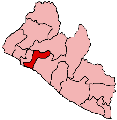 Map of Liberia showing Margibi County; created with the GIMP. Made by User:Acntx.